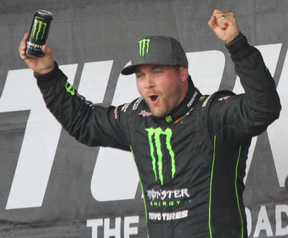 Kyle Leduc after winning the Pro 4 race at Crandon International Off-Road Raceway. He was the 2014 LOORRS champion.